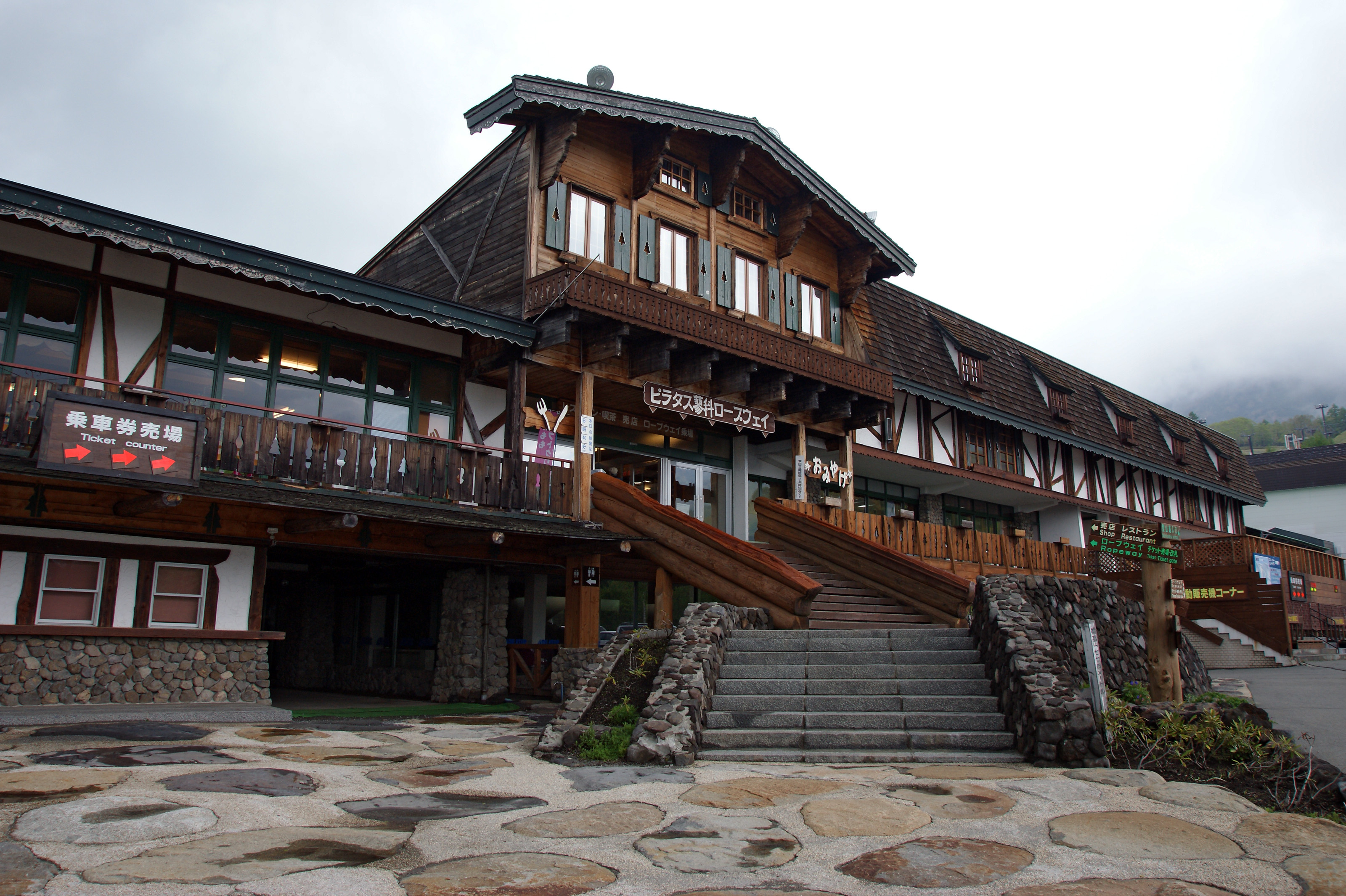 Pilatus Tateshina Rope Way in Chino, Nagano prefecture, Japan